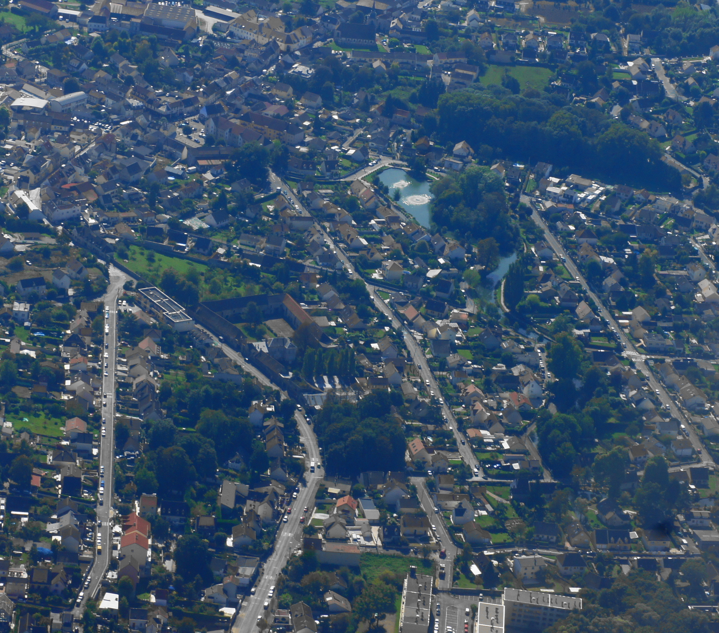 Le Thillay from the sky on a airplane